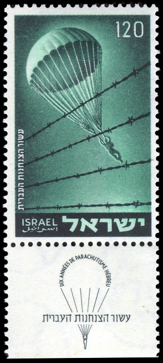 Israeli postage stamp commemorating the Jewish volunteers ("parachutists") in the days of the Second World War - 120 mil